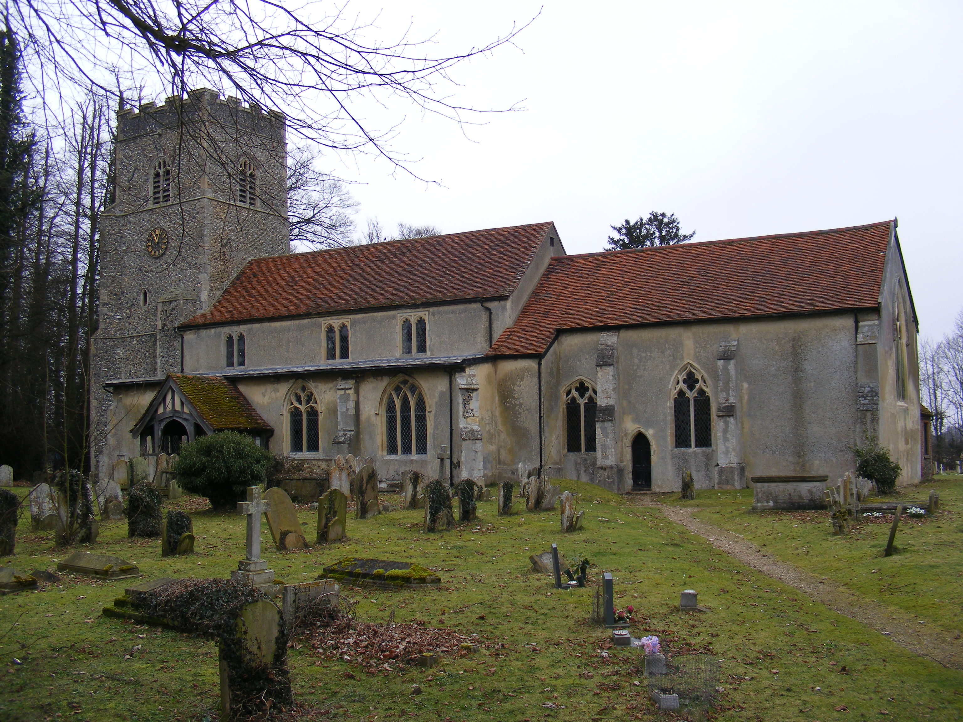 St.Nicholas Church, Hintlesham